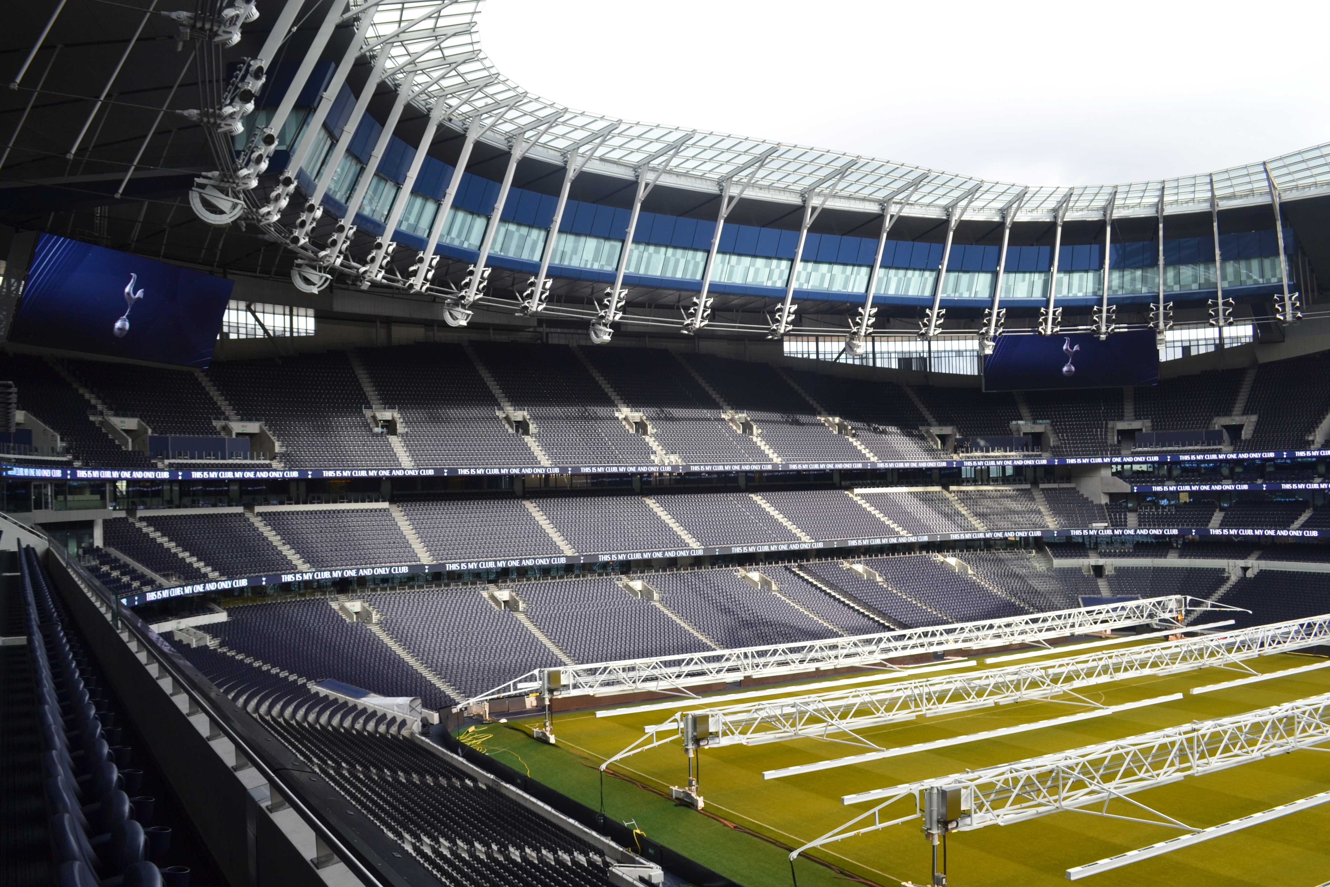 View of North Stand in Tottenham Hotspur Stadium from East Stand, over the pitch are grow lights